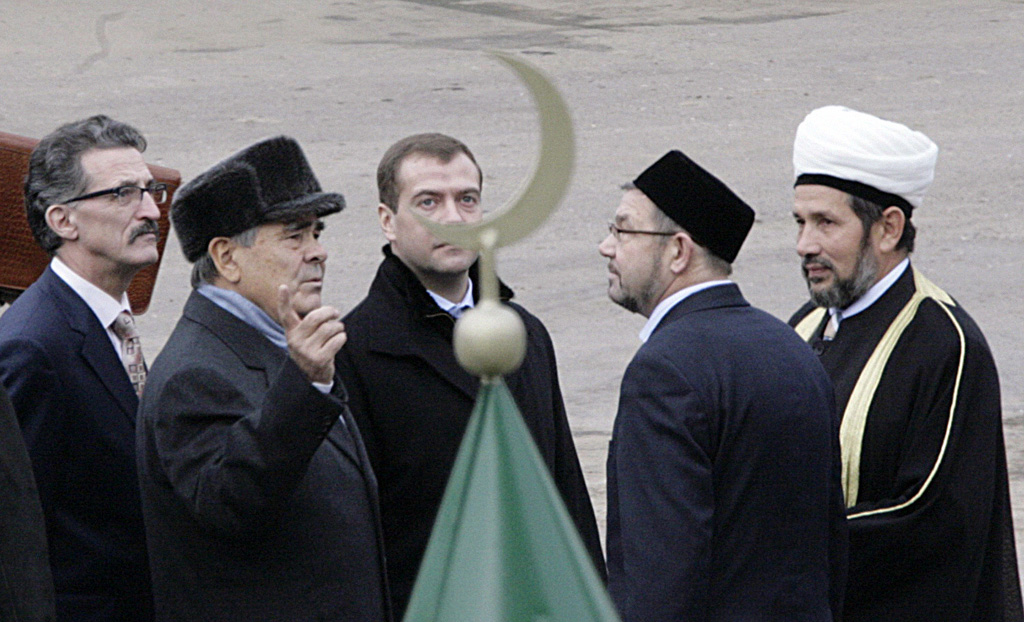 “Dmitry Medvedev visits Kazan”. From left to right: Tatar Minister of Science and Education Nail Valeyev, Tatar President Mintimer Shaimiyev, Russian First Deputy Prime Minsiter Dmitry Medvedev, Russia's Islamic University Rector Rafik Mukhametshin and Tatarstan's Muslim Board Head Gusman Iskhakov visiting the Islamic University of the Russian Federation in Kazan.